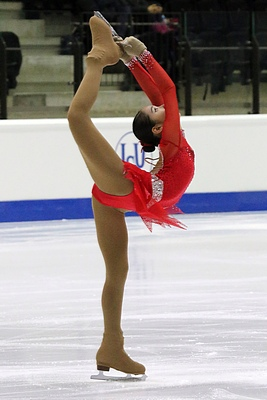 Junior World Championships 2015 – Ladies (Da Bin CHOI KOR – 9th Place)